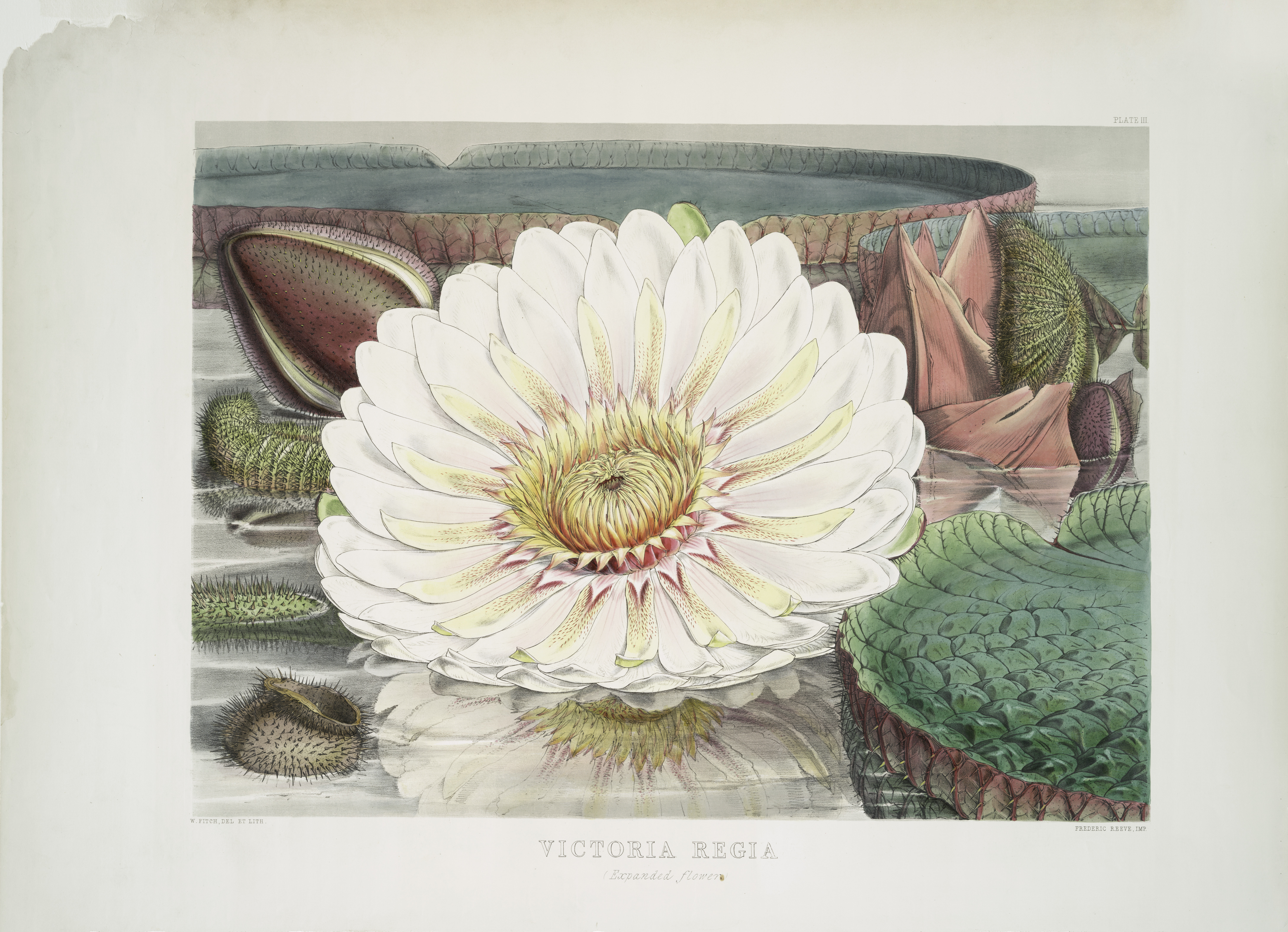 Scan of plate 3 from a monograph describing and illustrating the species Victoria amazonica.